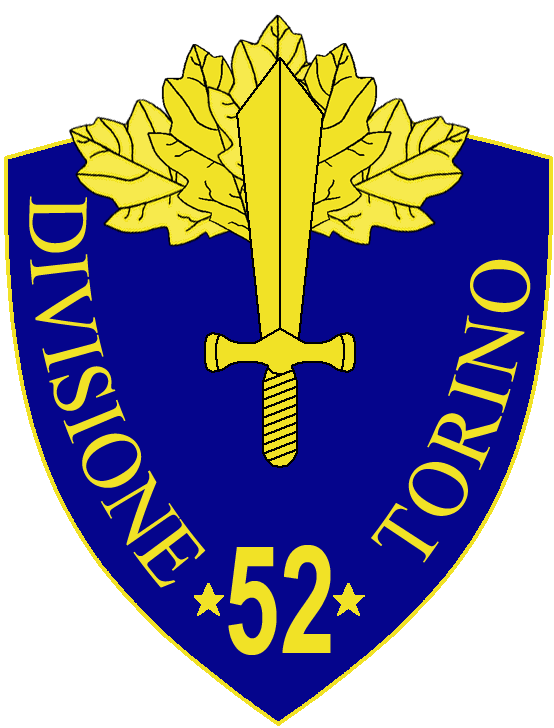 52a Divisione Fanteria Torino insignia, Regio Esercito, Italy, WWII